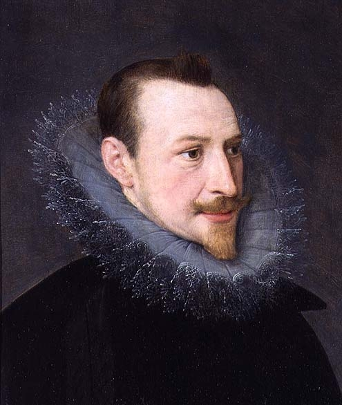 Supposed portrait of Edmund Spenser, English Renaissance poet and author of The Faerie Queene.